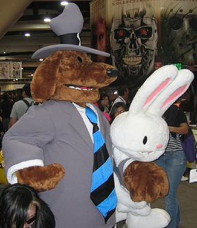 A costume of Sam & Max constructed by Telltale Games, at Comic-Con International in 2007. Slightly cropped from the original.